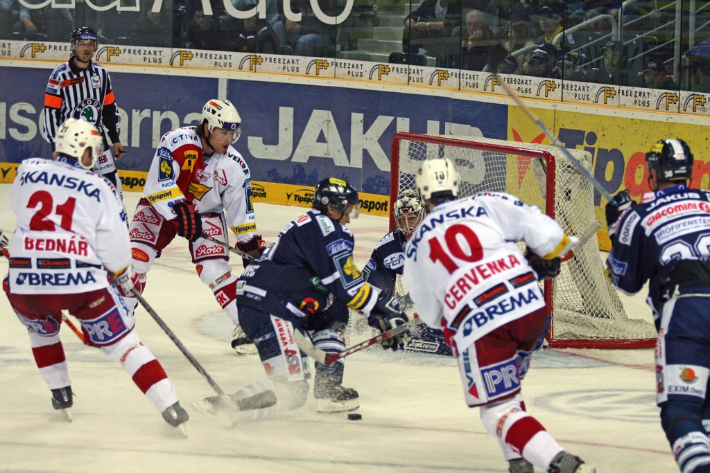 Bílí Tygři Liberec vs. HC Slavia Praha October 2007, result 5:2 (0:1,1:1,4:0) #21 Jaroslav Bednář ; #10 Roman Červenka